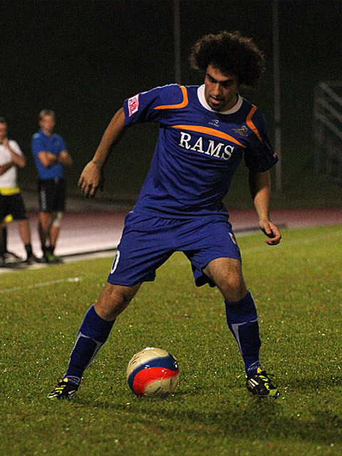 Hussein Akil in action for Woodlands Wellington during the 2012 S.League season.